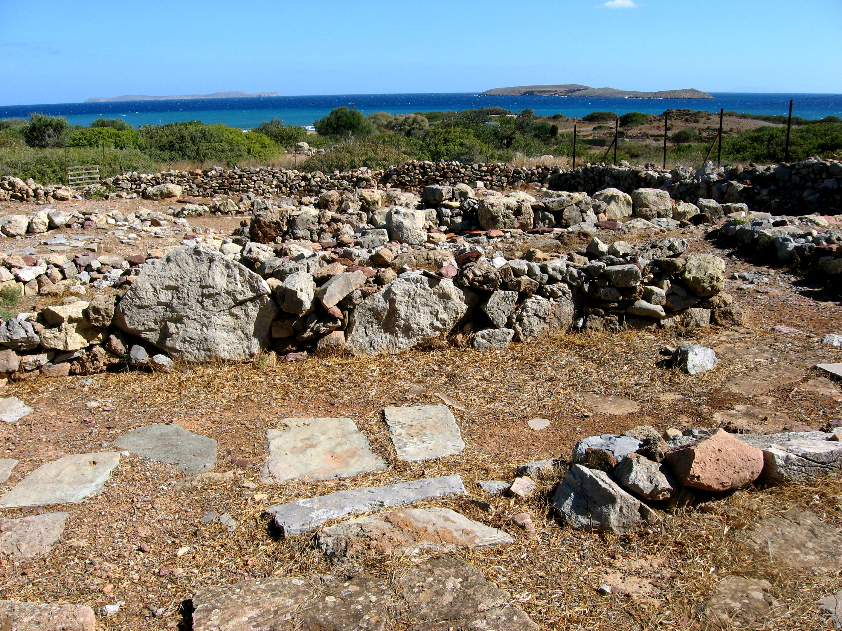 Minoan site of Roussolakkos near Palokastro, islands of Elasa and Grandes at the horizon. Estern Crete, Greece